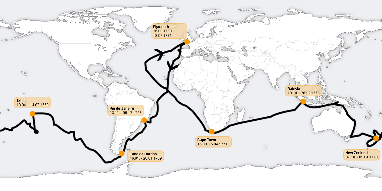 The first journey of James Cook with the place names in German